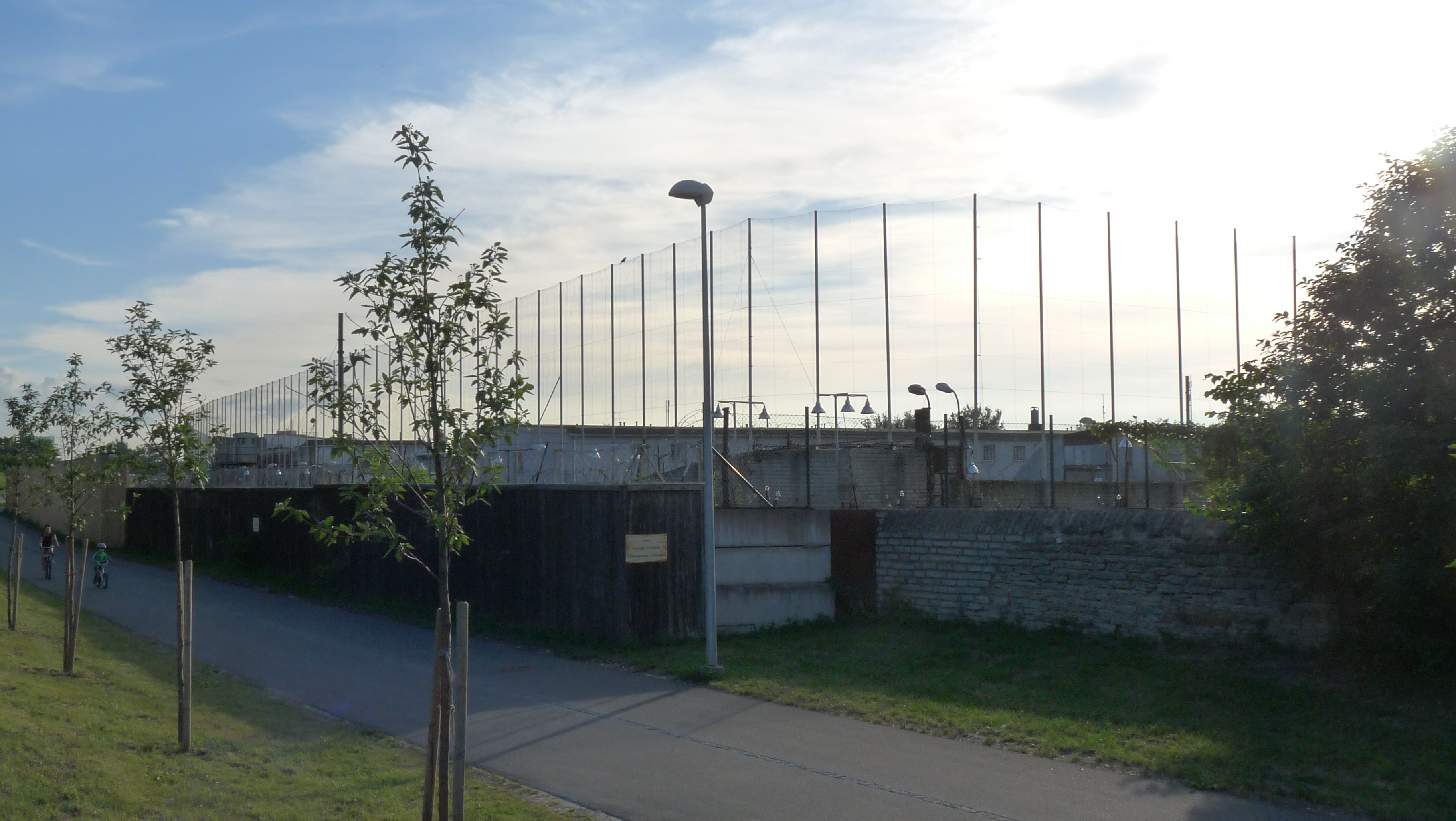 Fence and part of Tallinn prison.